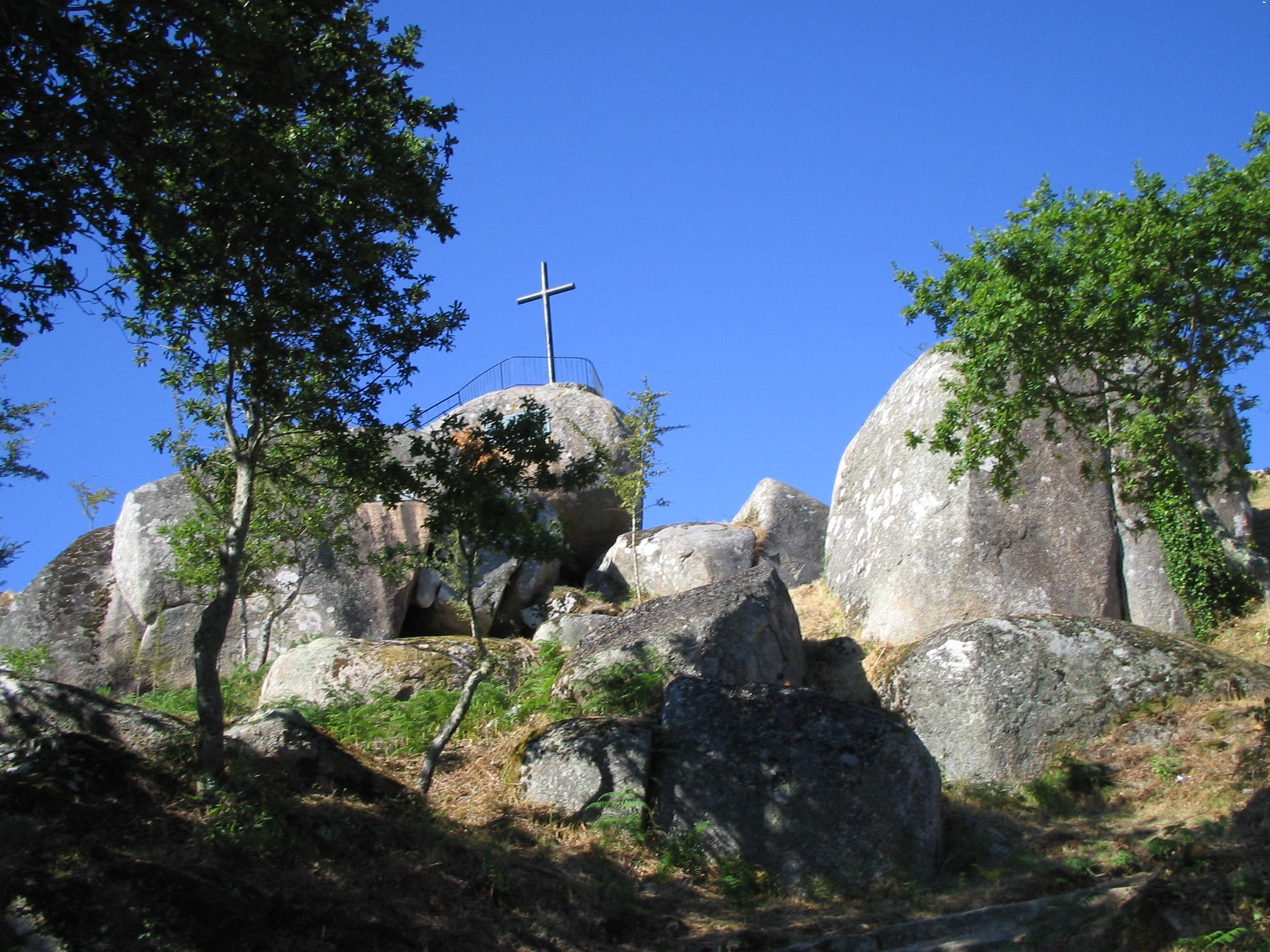 Mountain of Lobeira